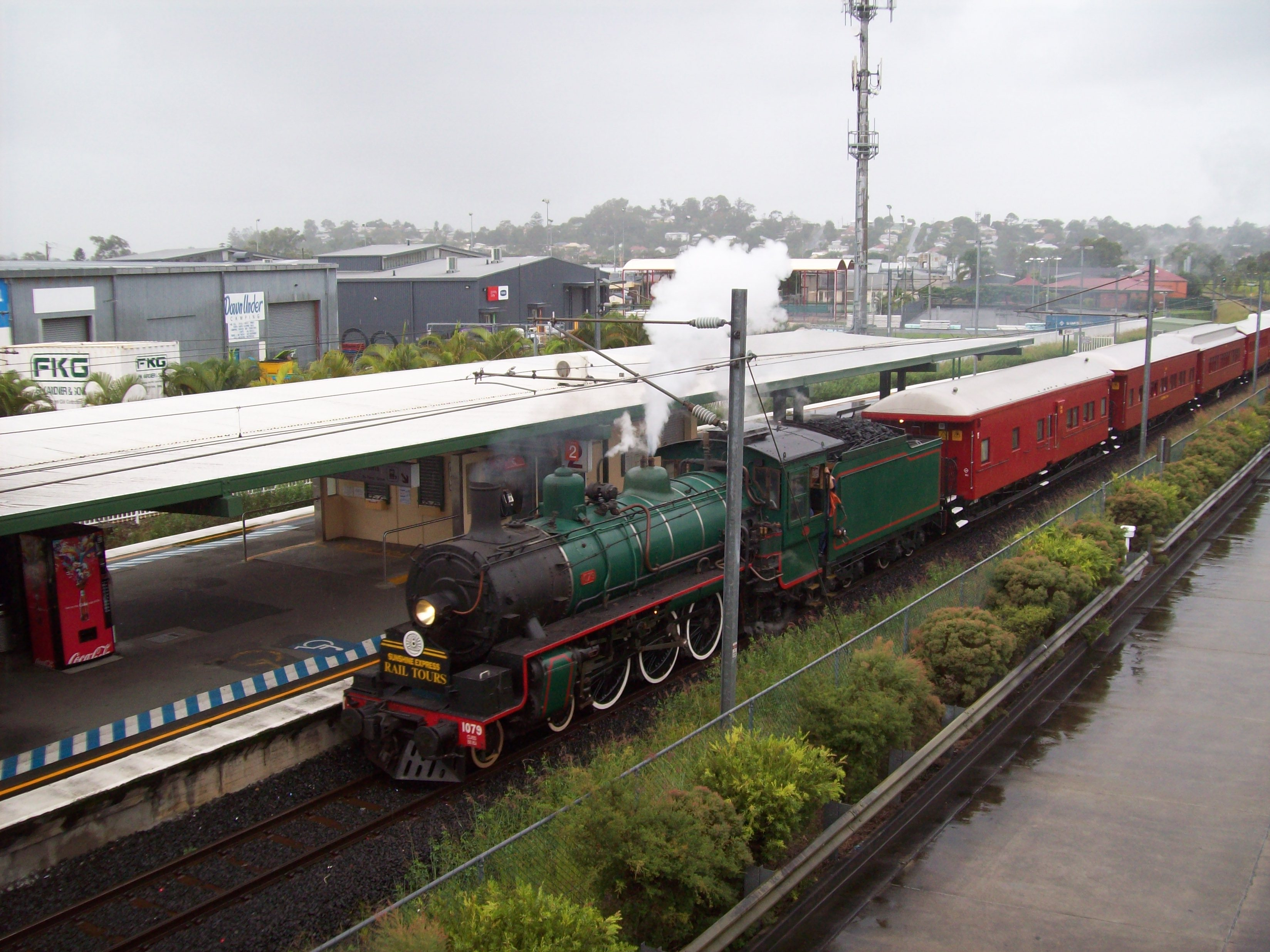 Queensland BB18¼ class No. 1079 passing through Enoggera railway station bound for Ferny Grove on a special tour.